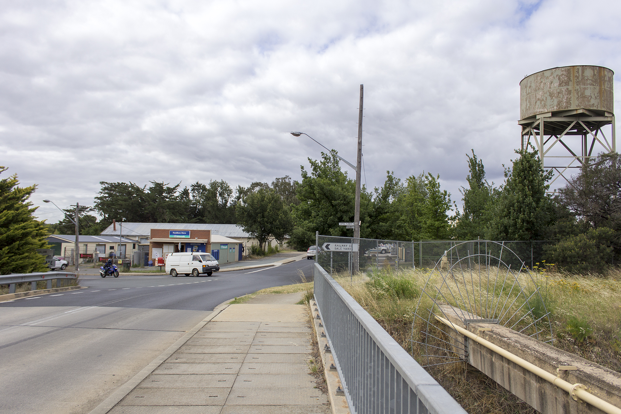 Oaks Estate viewed from the McEwan Avenue Bridge on the ACT side.